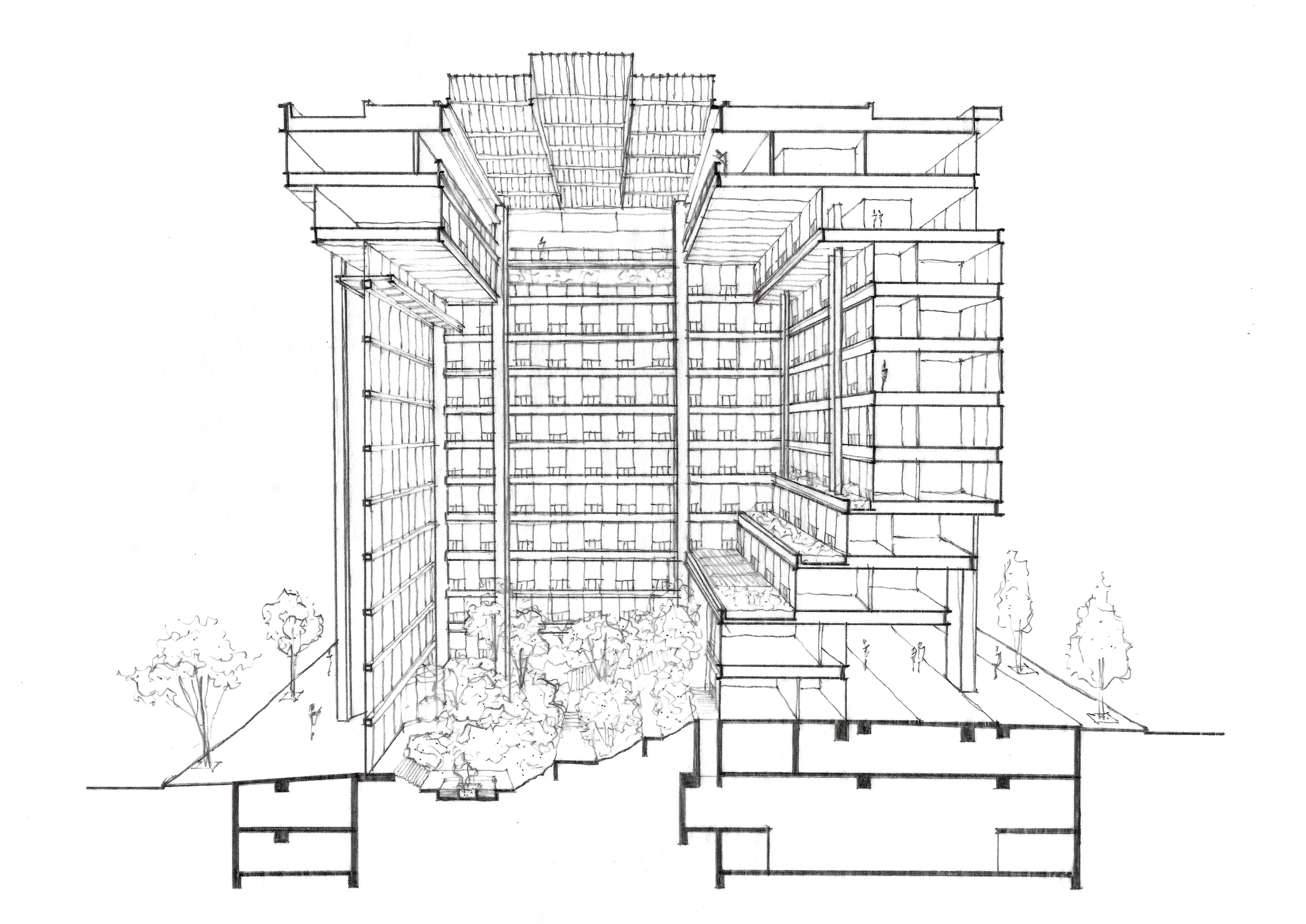 Reconstruction of the ground plan of the Ford Foundation Building, located on 320 East 43rd Street, New York City, NY, USA. Published plans and photographs used as reference.